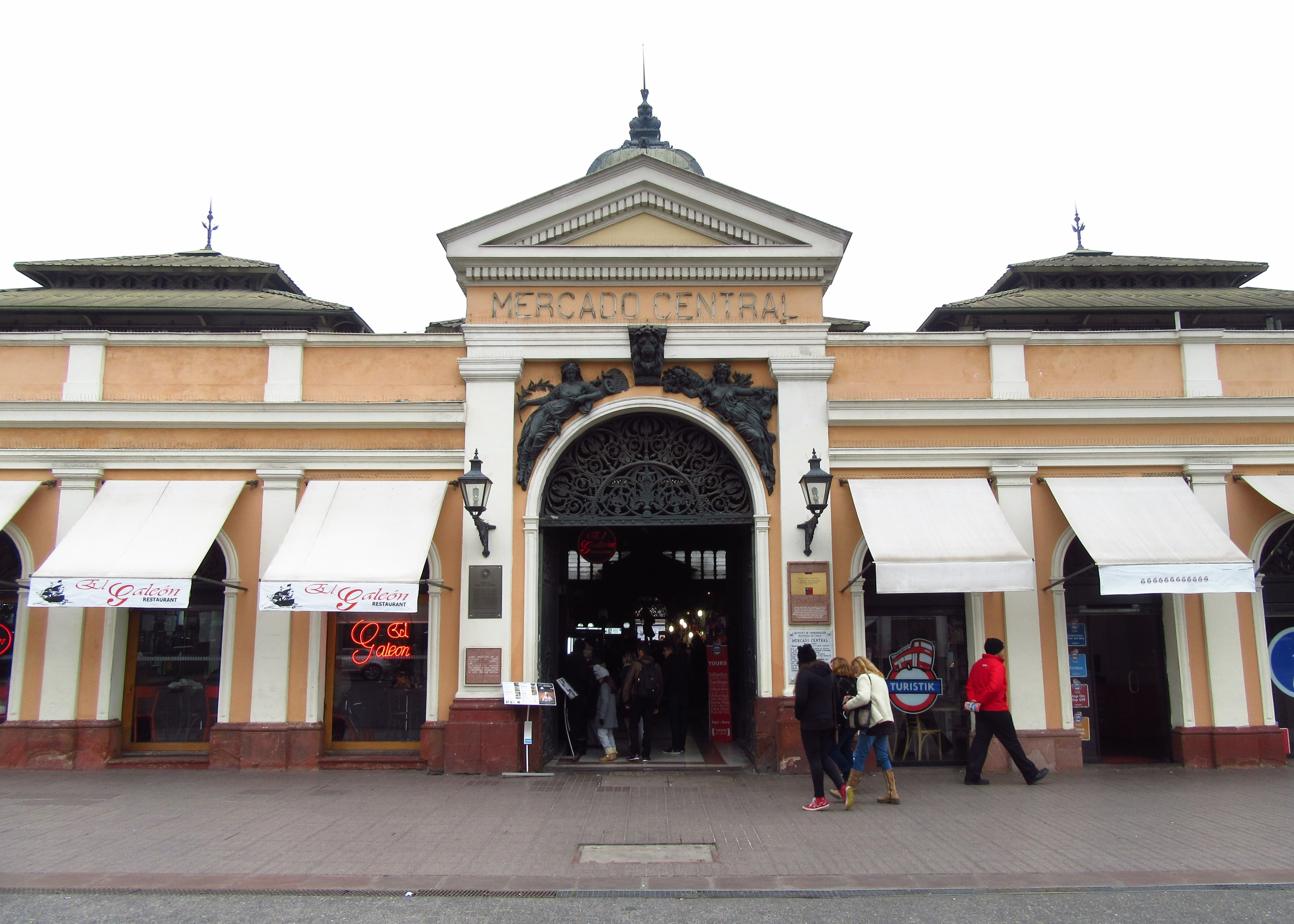 2017 in Santiago de Chile